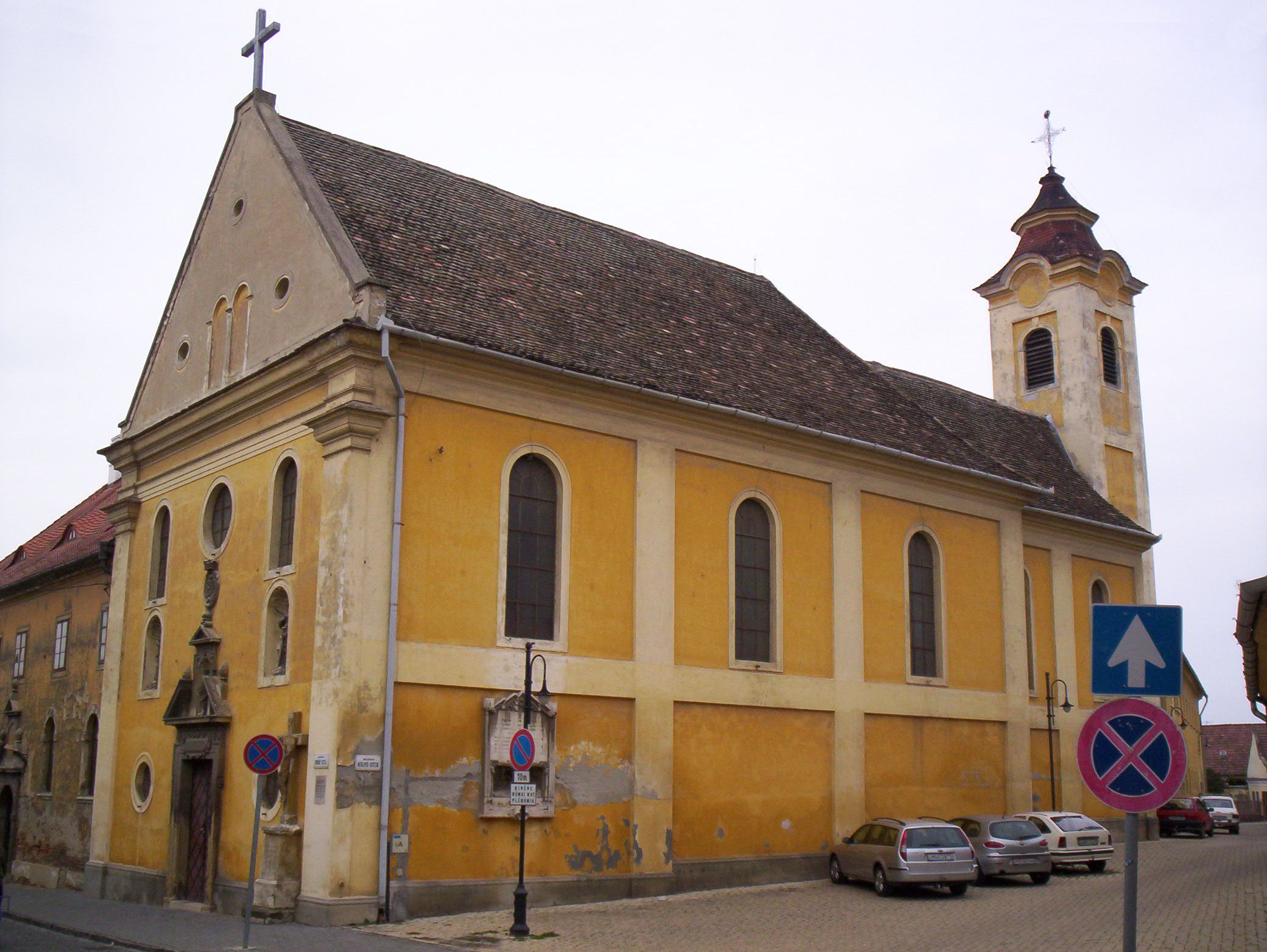 The Franciscan Church in Pápa, Hungary A pápai Kisboldogasszony ferences templom